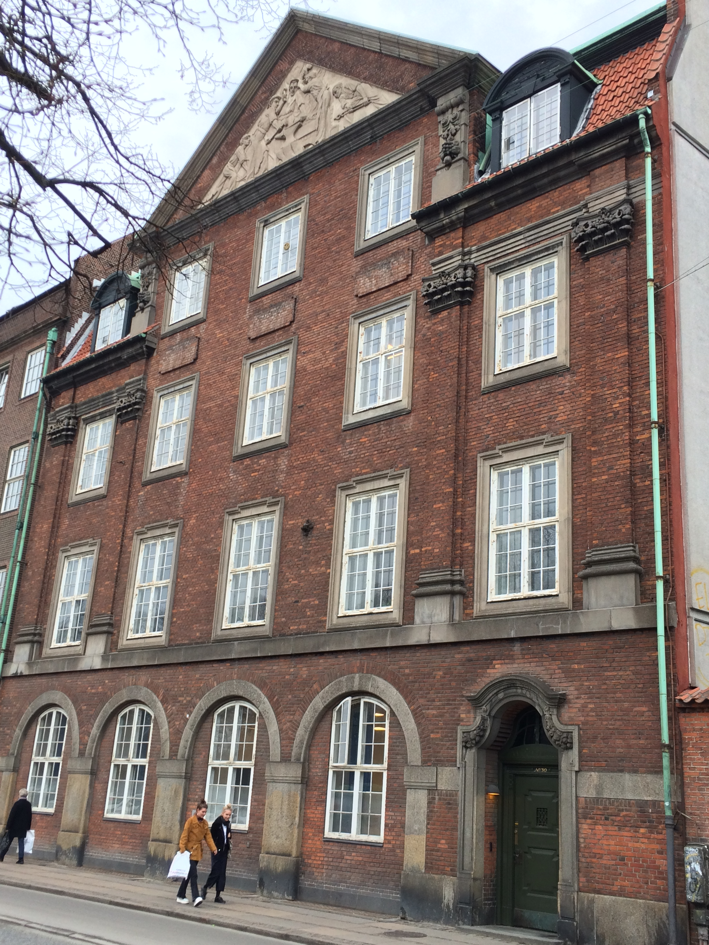 Frue Arbejdshus - Nørre Voldgade 30, Copenhagen, Denmark